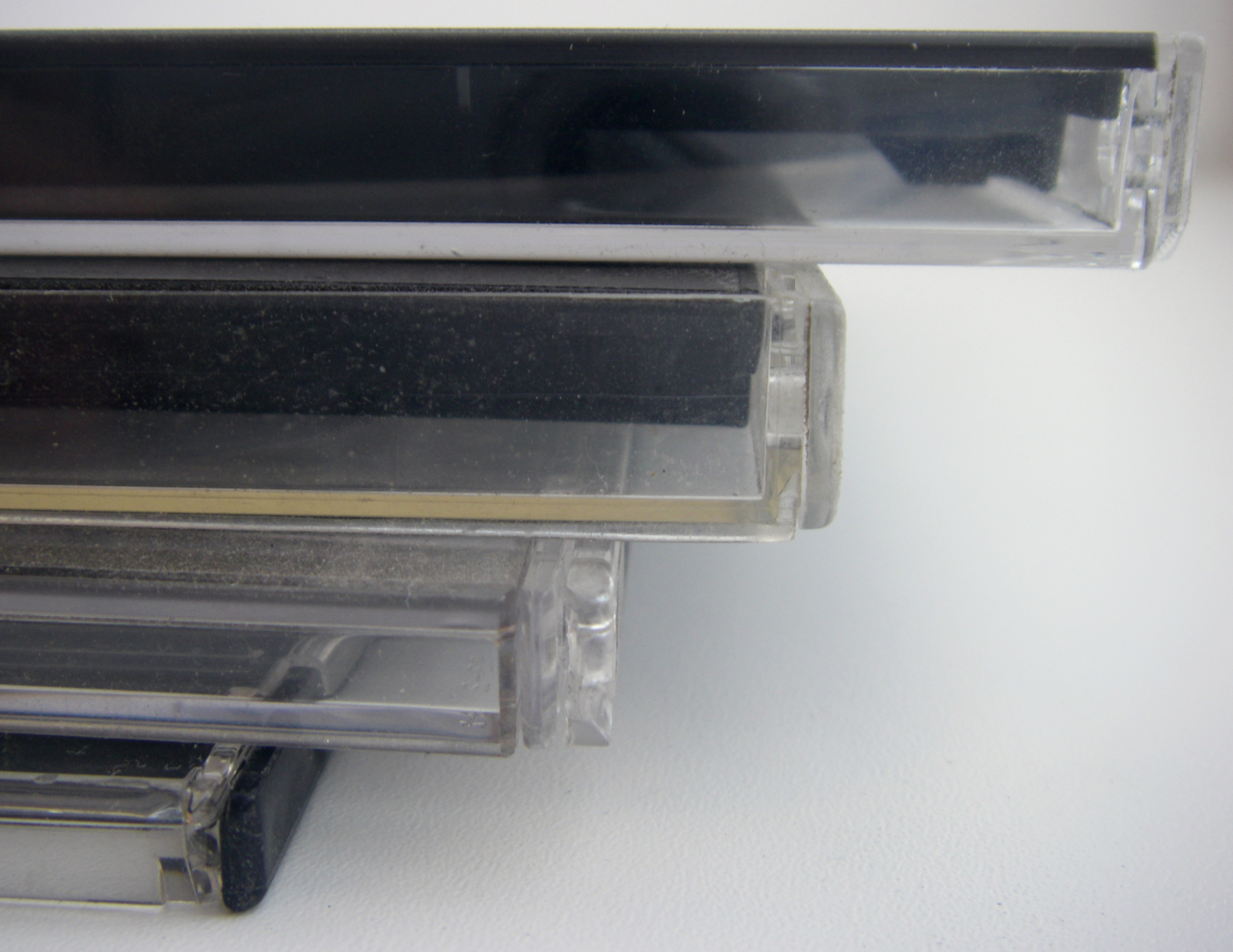 Backends of CD cases (from bottom to top: Slim case, Jewel Case (used to sell a most cheaper russian license software in 2000'th, little higher then slim), dual cd case, standard cd case).